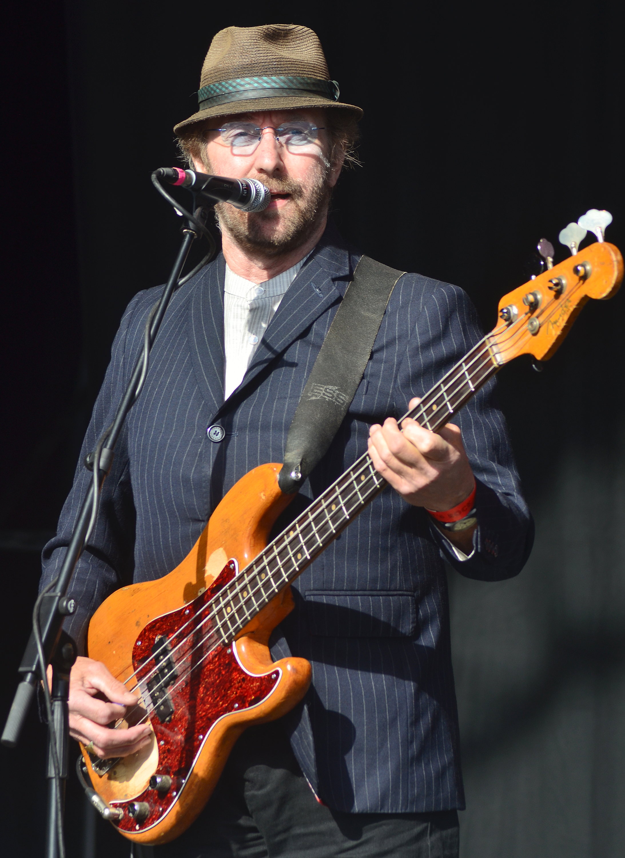 This is Dave Peacock, one half of successful British rock/pop group Chas and Dave. He is here performing at Let's Rock Bristol, 6 June 2015 at the Ashton Court Estate.